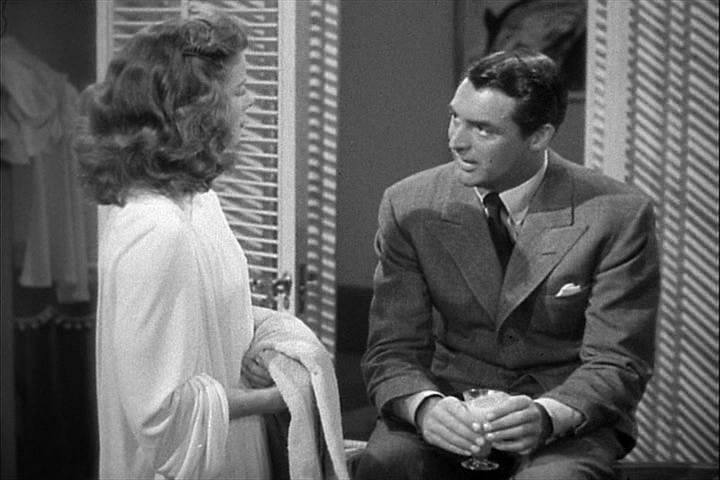 Philadelphia Story